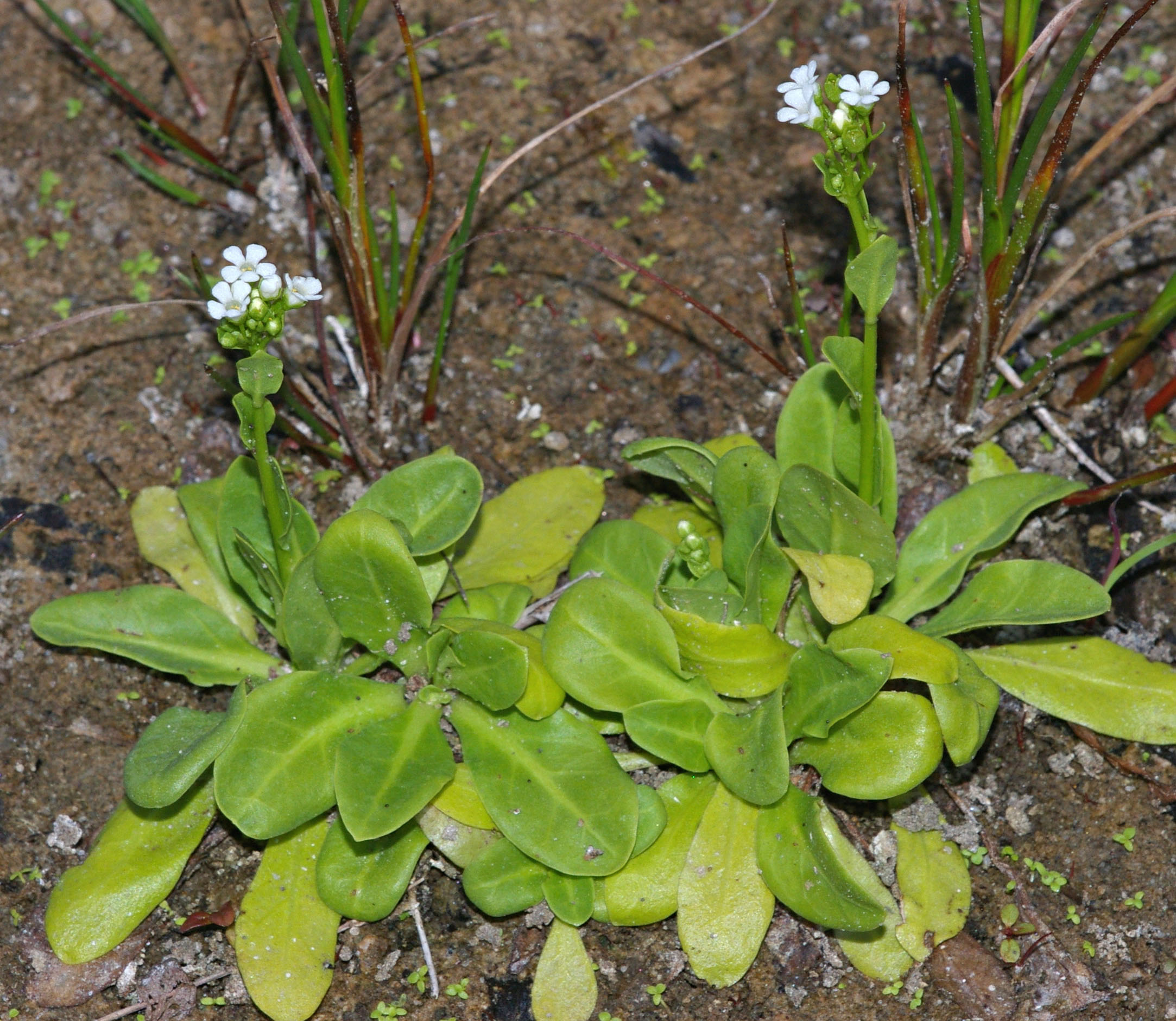 The salt-tolerating plant Samolus valerandi ssp. valerandi in stage of flowering.